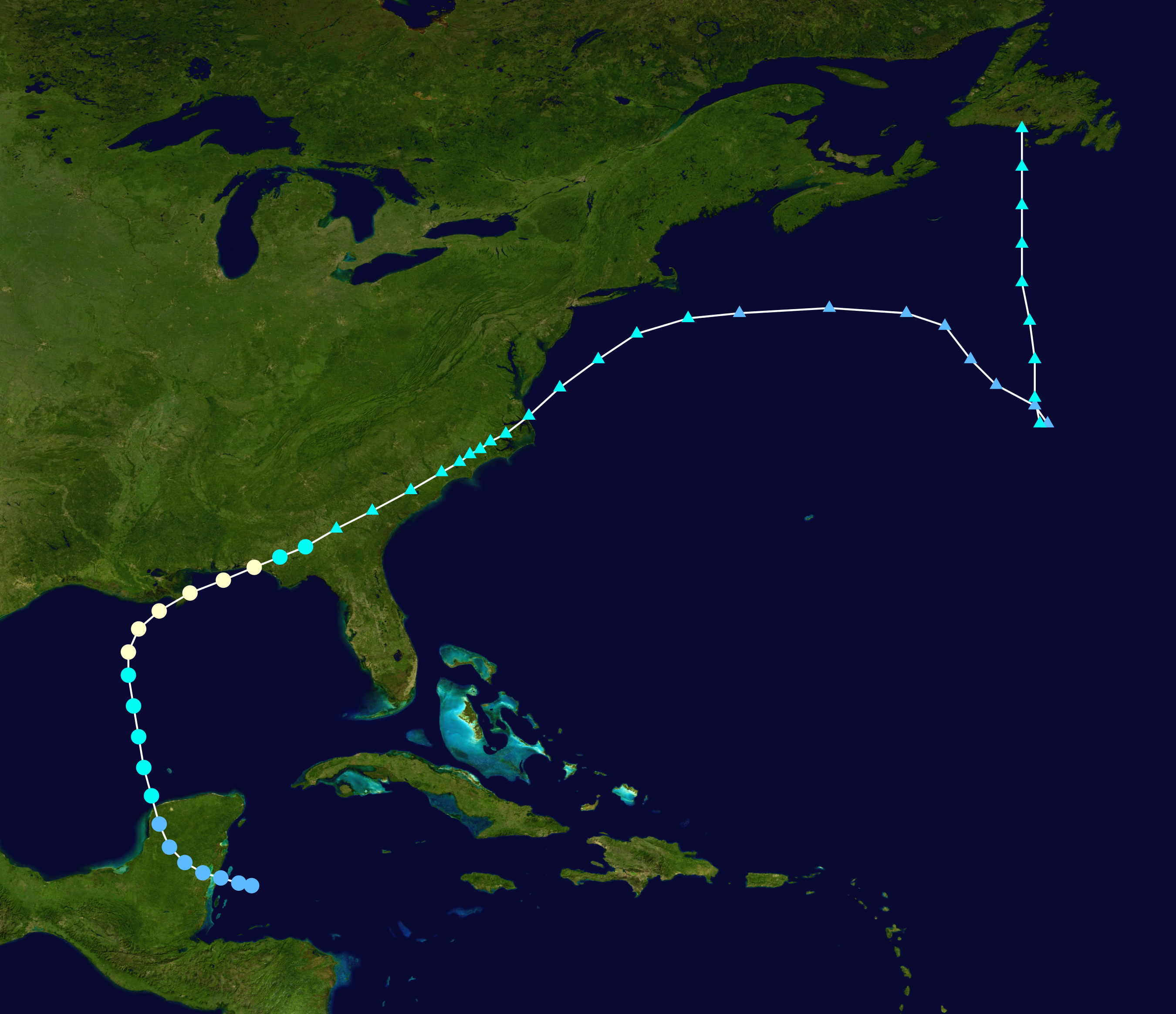 Hurricane Flossy (1956) track. Uses the color scheme from the Saffir-Simpson Hurricane Scale.